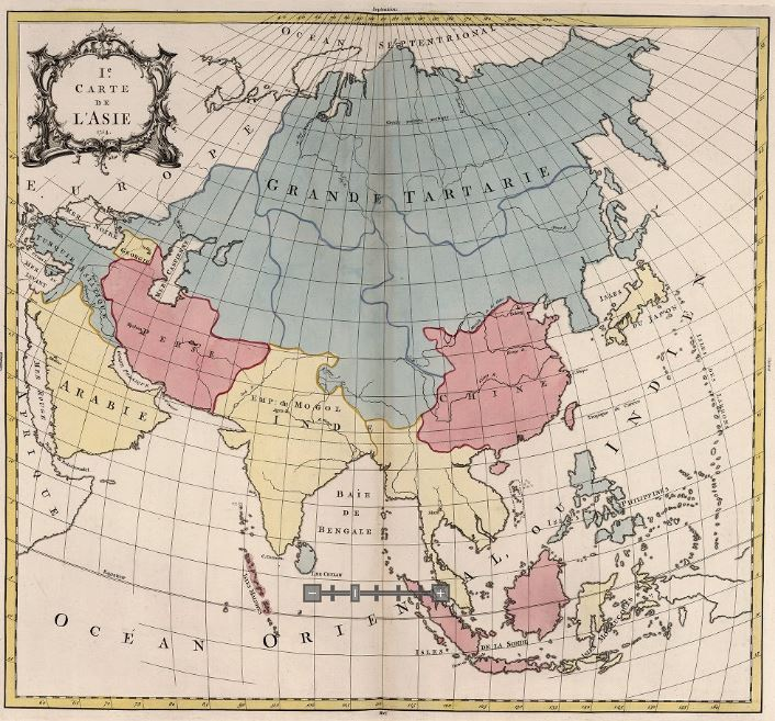 Tartary, Persia, India and China